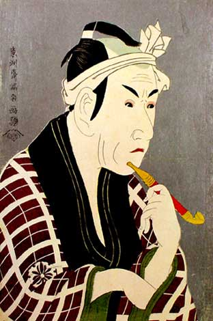 Kōshirō Matsumoto IV (1737–1802) as Sakanaya Gorobee, in the 1794 production of Kataki-uchi Noriai Banashi by Tōshūsai Sharaku